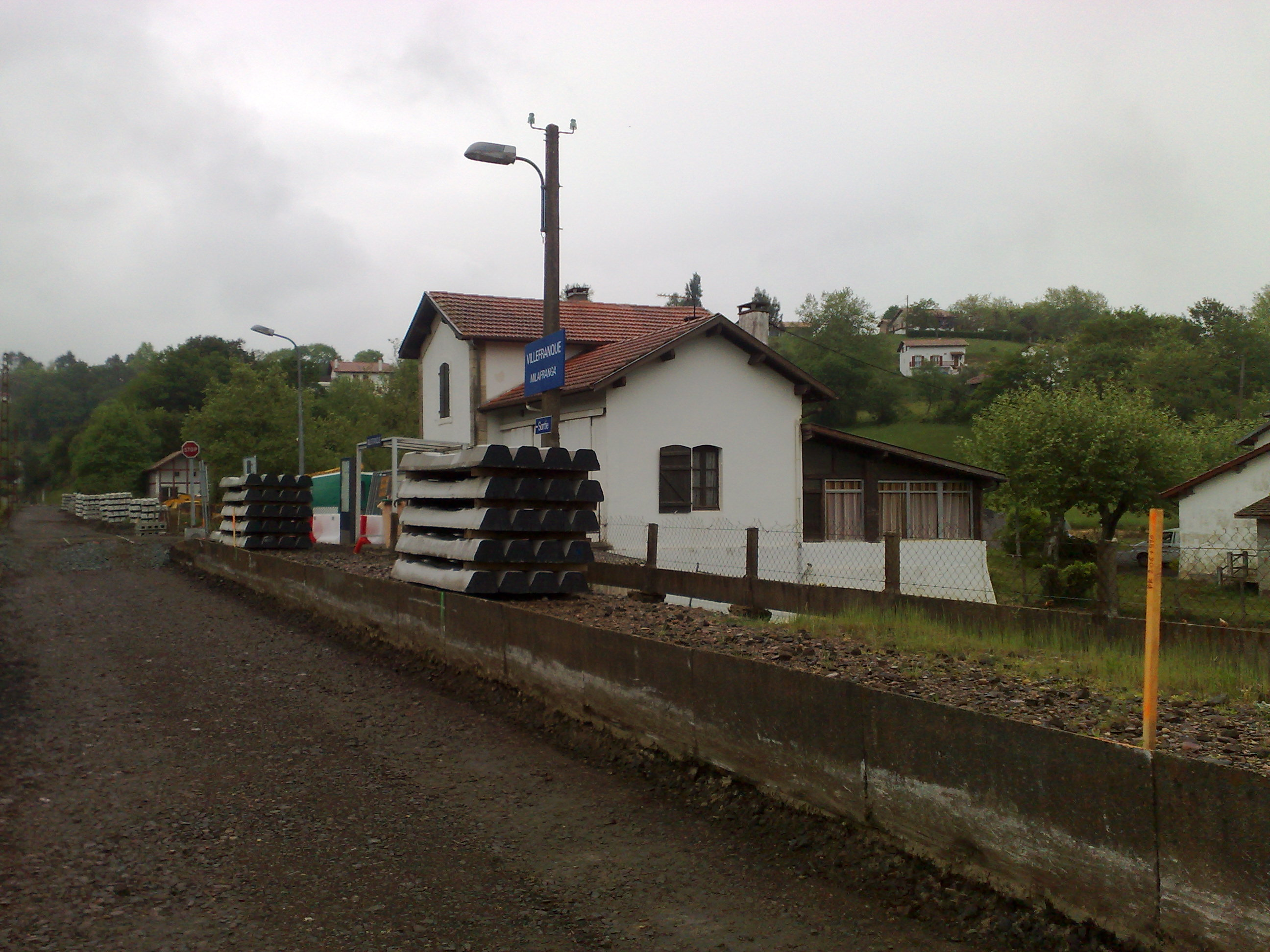 Works at Milafranga (eu) or Villefranque (fr) station, Lapurdi-Labourd, Basque Country.